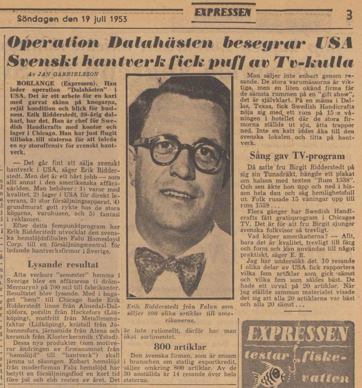 C. Erik Ridderstedt and article from Expressen 19 July 1953, as released by image owner FamSACPlace: Sweden